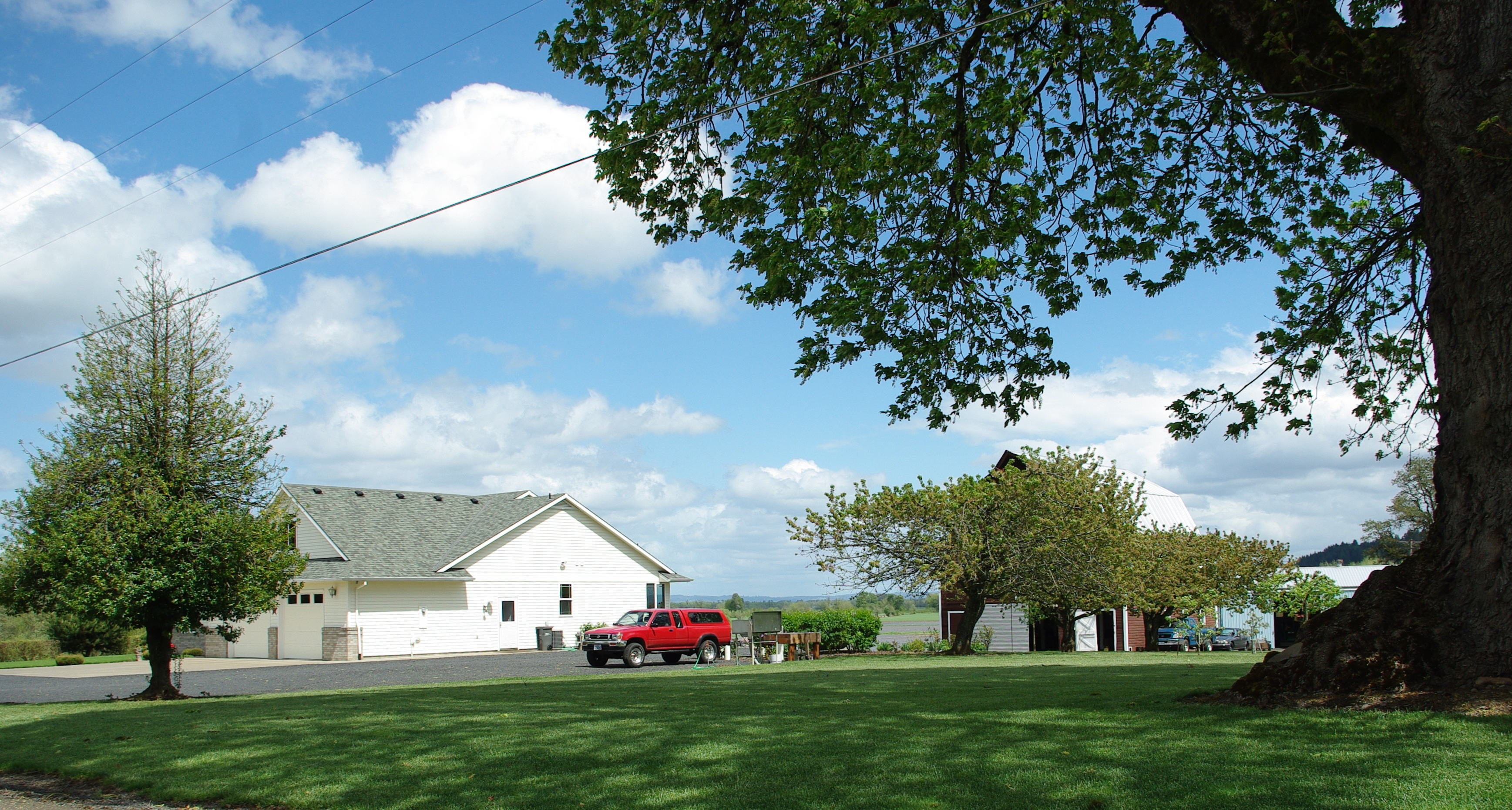 House in Dilley, Oregon.